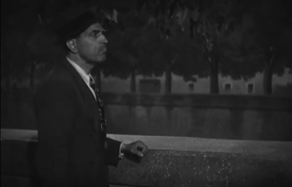 The actor Gustavo Cacini playing The Last Wagon (1943 film)